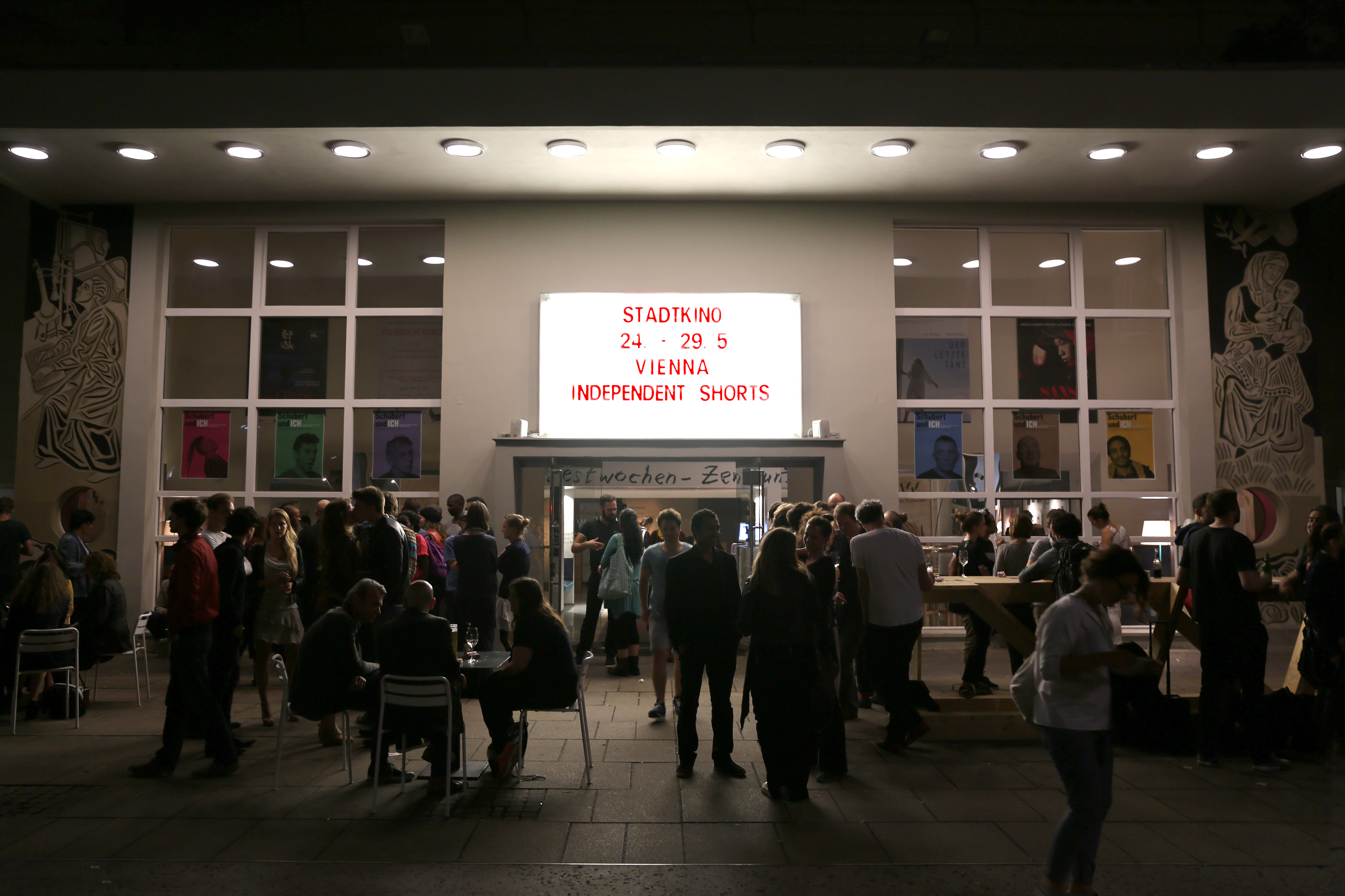 Stadtkino at Vienna Künstlerhaus, in May 2014 at the center of the film festival Vienna Independent Shorts as well as of the Vienna Festival (Vienna, Austria).